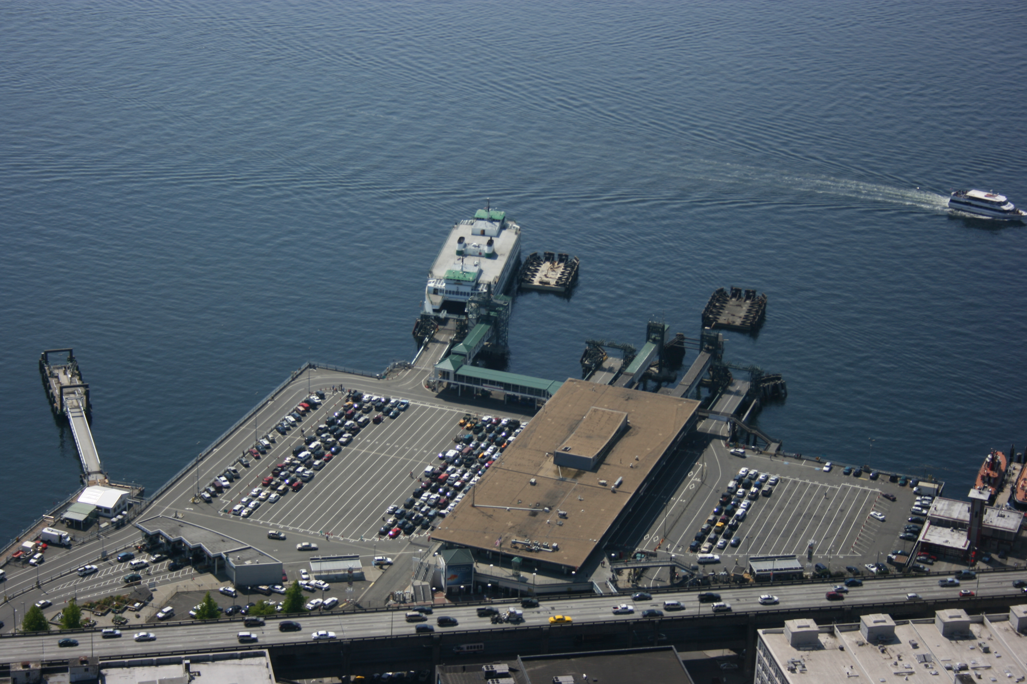 Colman Dock, the main ferry terminal in Seattle, viewed from the Columbia Center